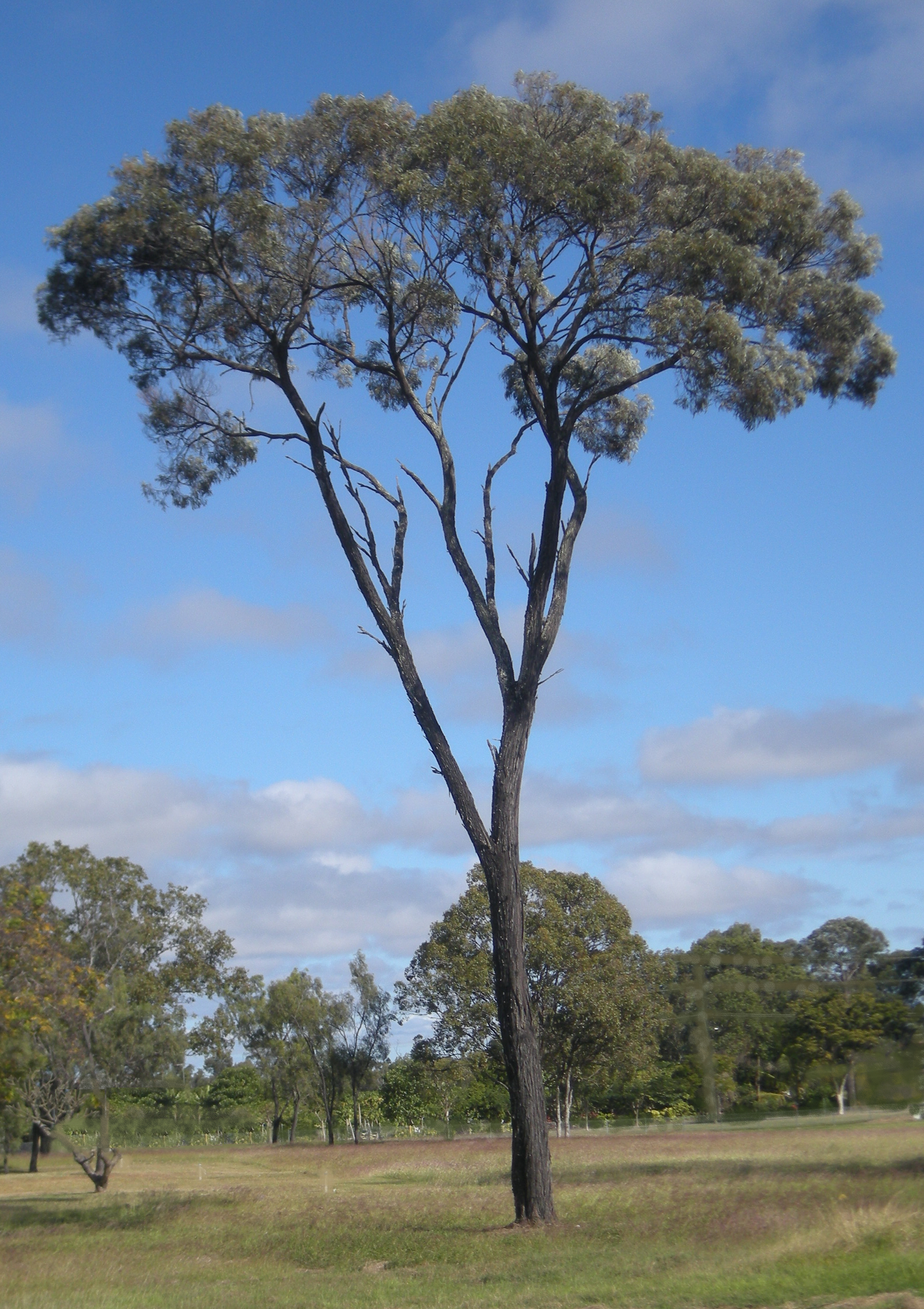 A 20 metre tall remnant brigalow tree in coastal central Queenland, Australia. It is classified as Acacia harpophylla.